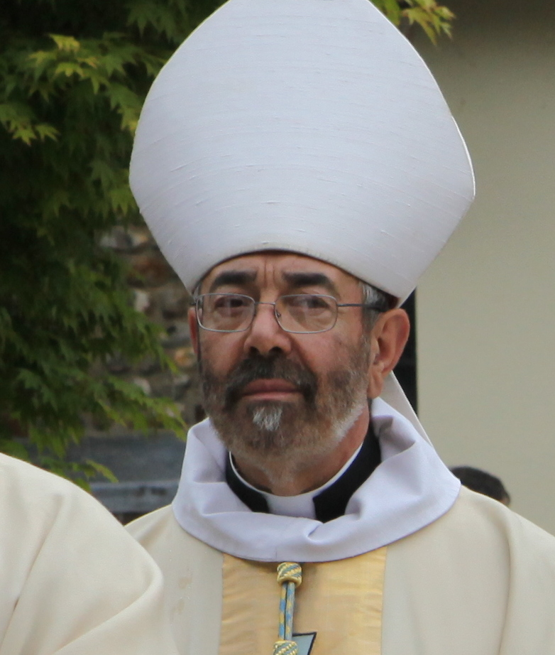 Procession of Bishops at Walsingham